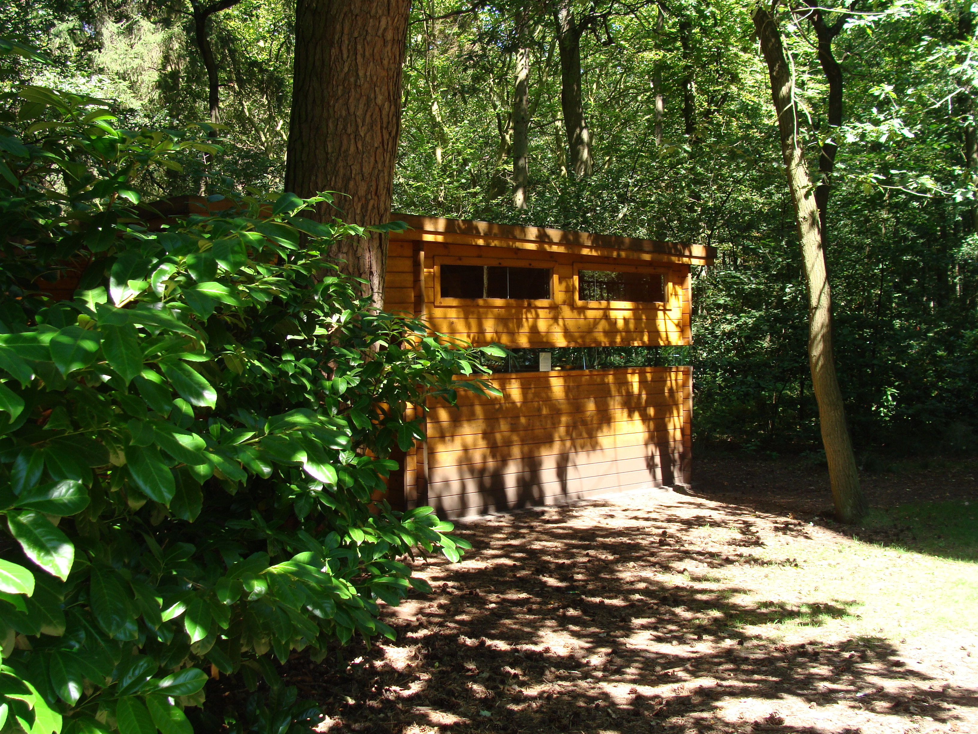 "RADIO FOREST (2005/2009) - AMY FRANCESCHINI & STIJN SCHIFFELEERS / KOEN DEPREZ Radio Forest was initially developed as a radio station where one could broadcast the moods of the wood. Koen Deprez transformed the small building. He just sliced it and placed a glass border in between. In this way, Radio Forest became a real station for creative workshops in Klankenbos as well as a display window for the mobile sound installations Muziekdozen (2005) by Moniek Darge, FluisterOren (2005) by Baudouin Oosterlynck and Musiscopes (2007) by Eric Van Osselaer. Amy Franceschini (US) founded Futurefarmers, a co-op including a design studio and an international artist in residence program. Stijn Schiffeleers (BE) reveals the subtleties of life. He is cofounder of Boutique Vizique. Koen Deprez (BE) gives rise to architecture, design, exhibition outline, etc. His projects are consequently obvious, but radical at the same time. Typical for him are chic material choices, concepts emerging from literature, shapes revealing craftsmanship, …" IN: Victuallers (talk) "In Klankenbos (Sound Forest) contemporary artworks produce sounds. Not only are your ears stimulated, you'd better keep your eyes open as well, for the sound installations are fascinating visual artworks which deserve to be looked at. Thus Klankenbos is a special auditory and artistic open air experience, inviting you along a promenade walk at the Provincial Domain Dommelhof in Neerpelt. With its ten stationary and three mobile sound installations Klankenbos is quite unique in Europe." IN: "Awakening Woods In the context of Manifesta 9 - Parallel Events, Musica is hosting a summer exhibition with three new acquisitions for the permanent Klankenbos collection and two temporary media installations." IN: Catalogue: Neerlpelt, Belgium, 08/2012